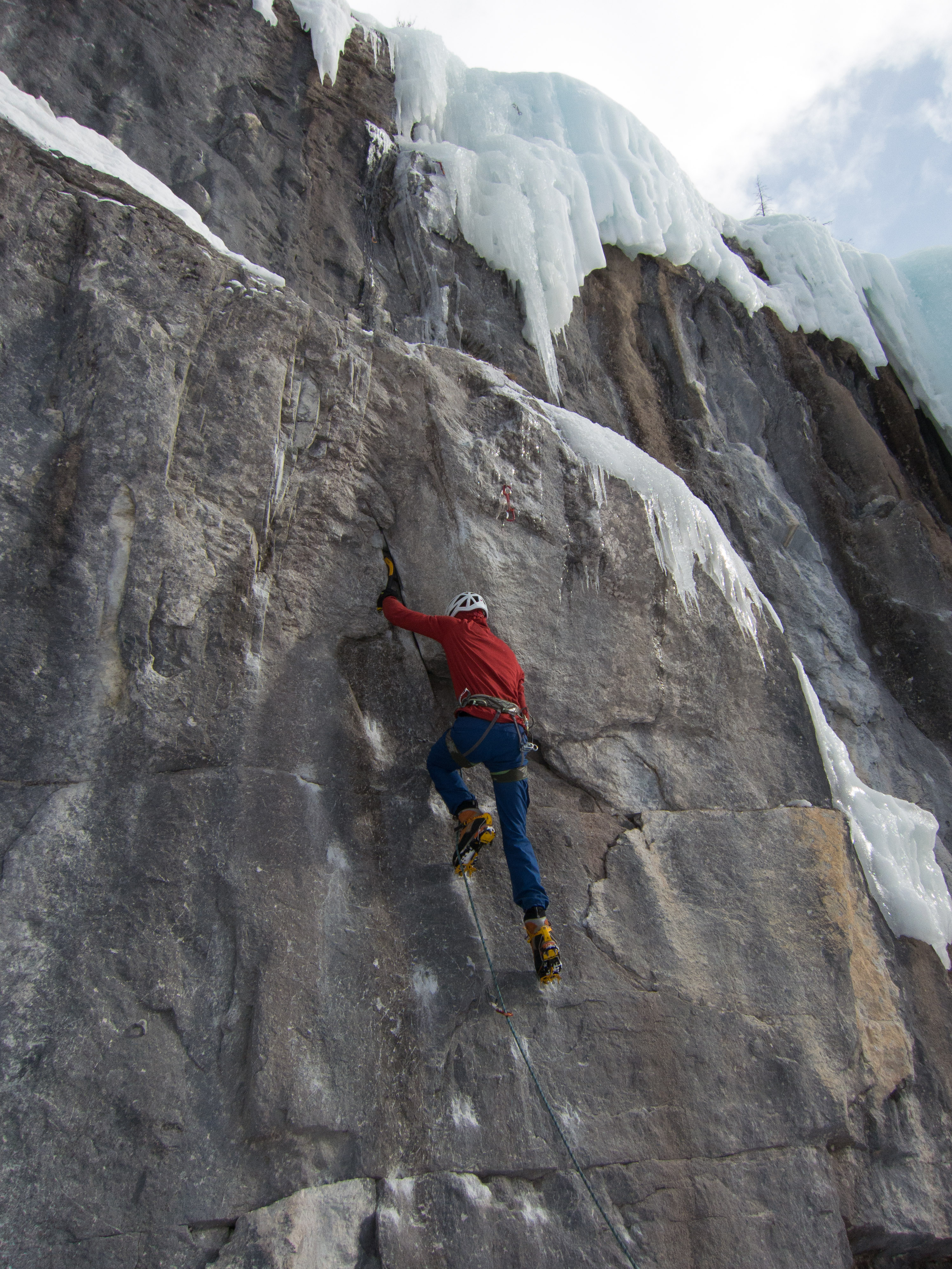 Ice climbing in North Ghost area in Ghost Valley near Canmore, Alberta. Ryan sending at Haffner.